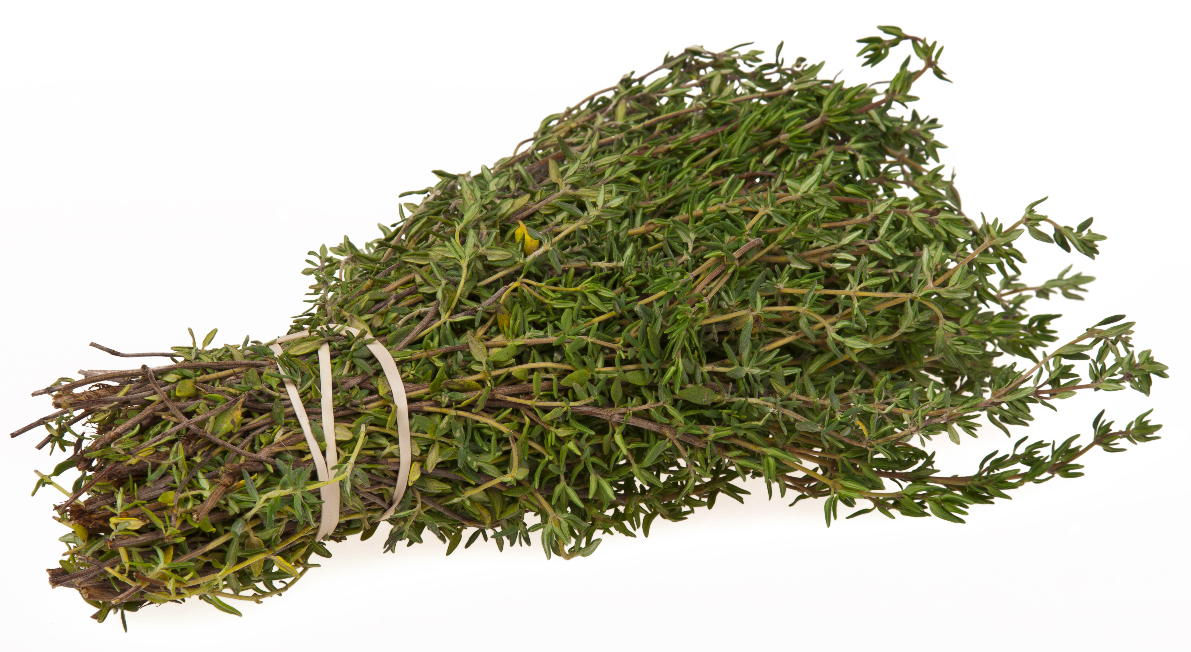 A bundle of the herb thyme that came from an organic farm co-op.